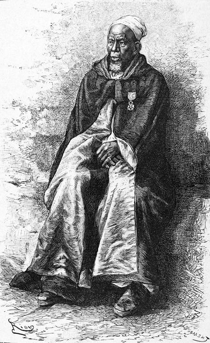 Boubakar-Saada, king of Bundu